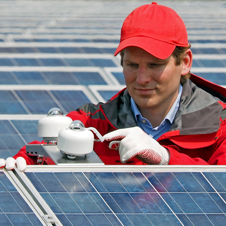 Pyranometer (Hukseflux SR30) as used in the PV industry